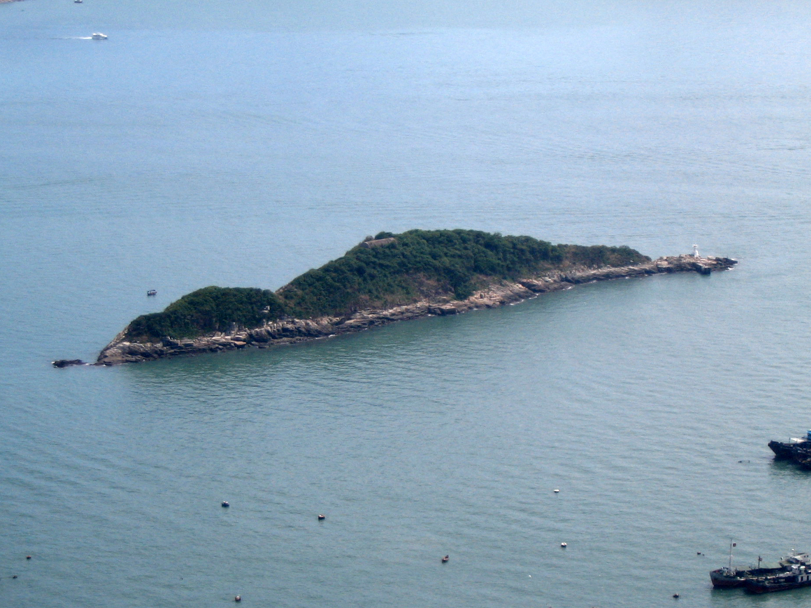 Photo of Magazine Island